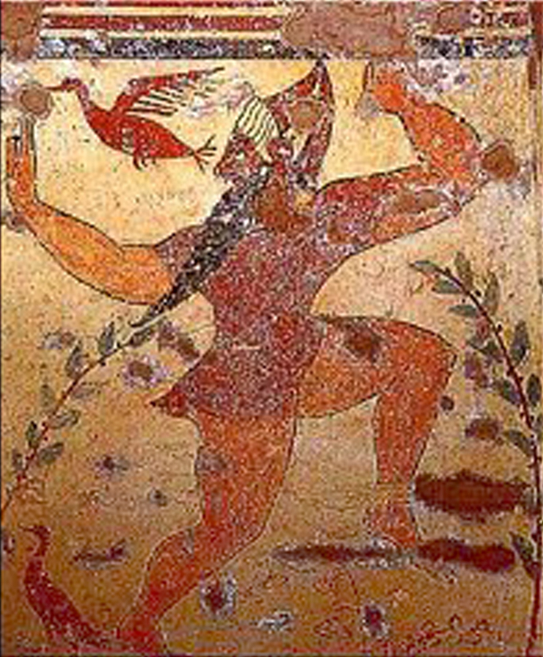 The Phersu